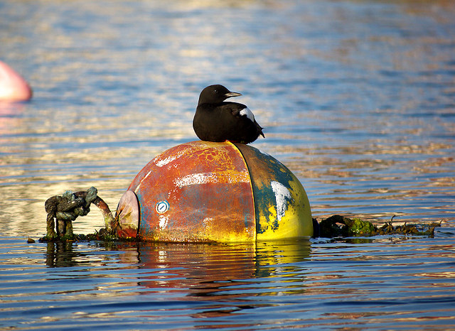 A Black Guillemot perched on a buoy in the 'Long Hole' in Bangor